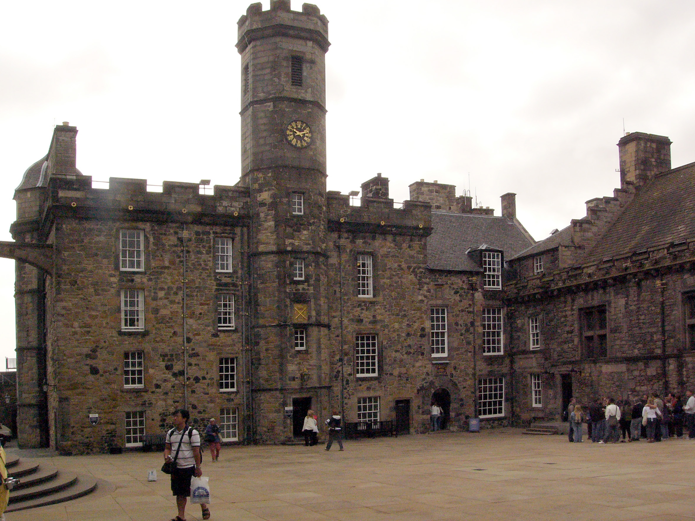 Edinburgh-Castle